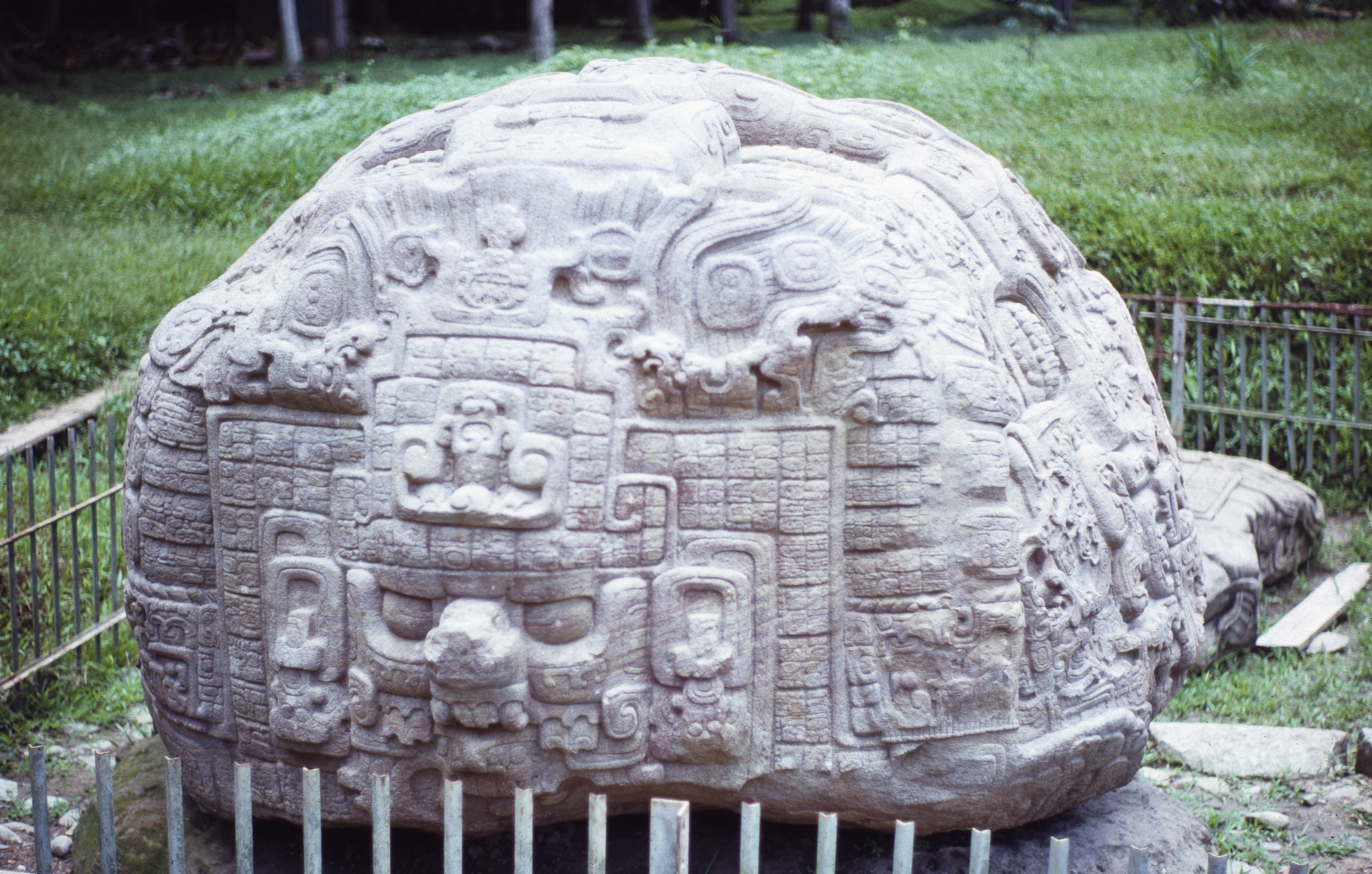 Quirigua, Guatemala: Zoomorph P